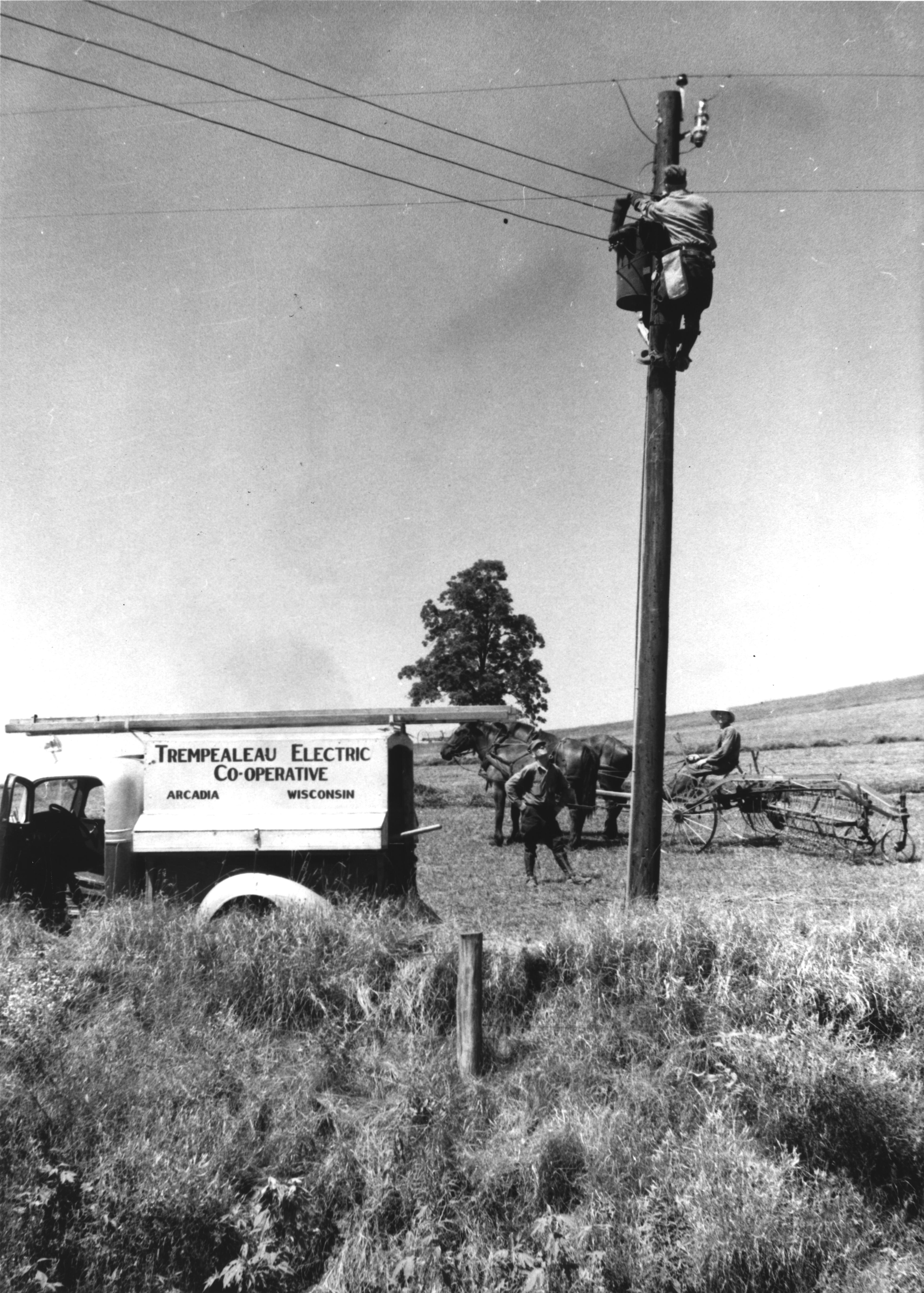 Rural Electrification Administration lineman working on a pole as farmers watch. Detail